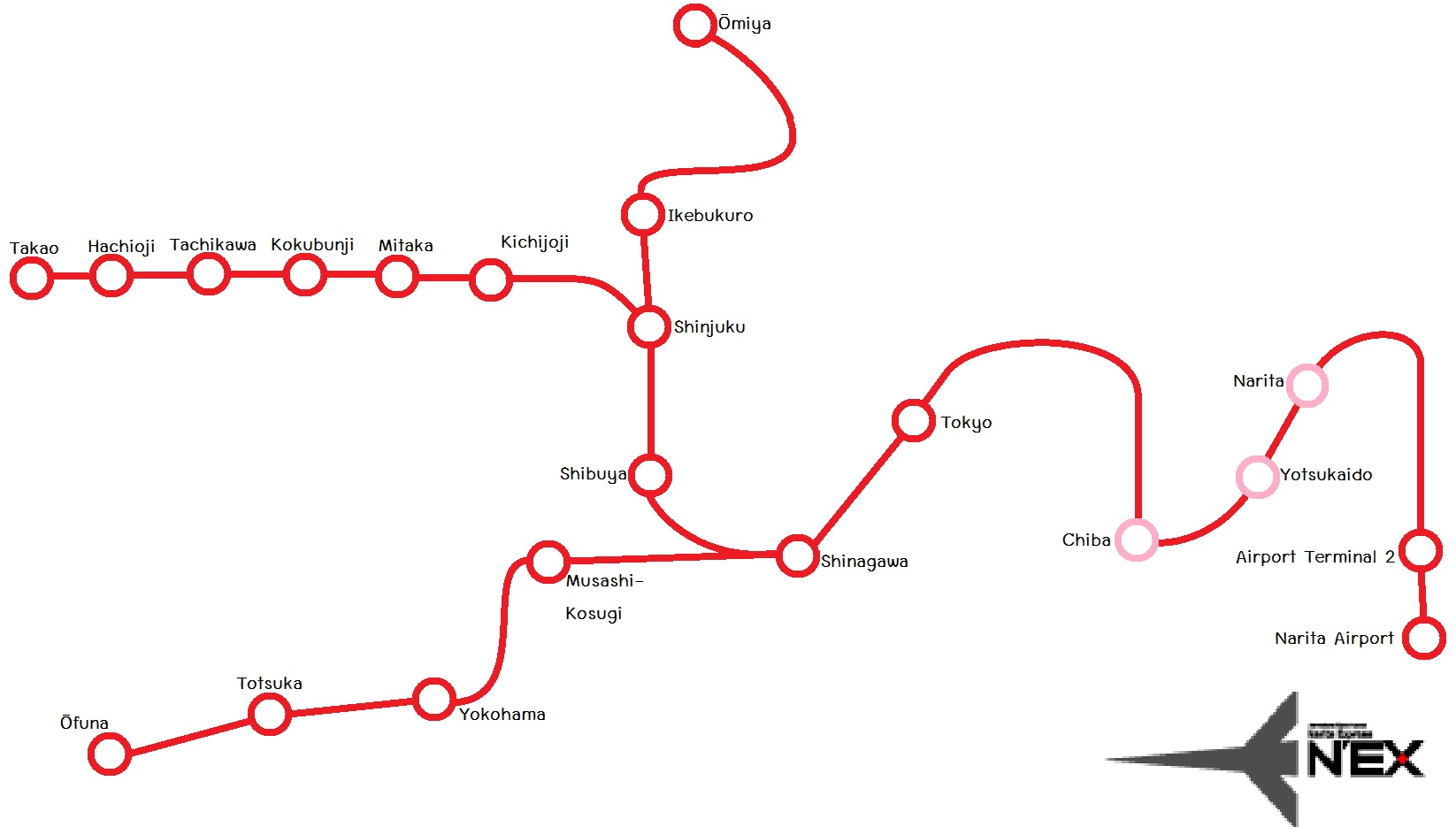 1.From Template:Ja-stalink to Template:Ja-stalink Known as Narita Line 2.From Template:Ja-stalink to Template:Ja-stalink known as Sobu Rapid Line 3.From Template:Ja-stalink to Template:Ja-stralink known as Yokosuka Line 4.From Template:Ja-stalink to Template:Ja-stalink Known as Yamanote Line 5.From Template:Ja-stalink to Template:Ja-stalink known as Chuo Main Line 6.From Template:Ja-stalink to Template:Ja-stalink known as Shonan-Shinjuku Line